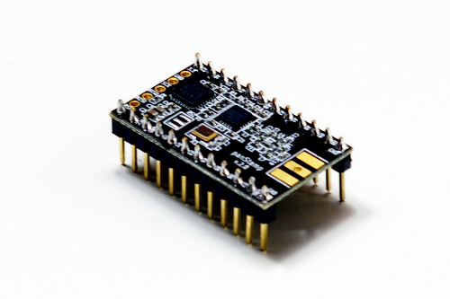 Low-power wireless module programmable from the Arduino IDE